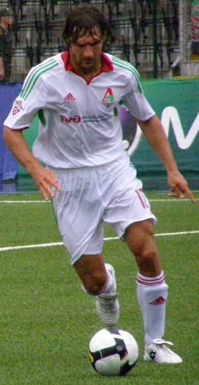 Dmitry Sennikov in action for FC Lokomotiv Moscow